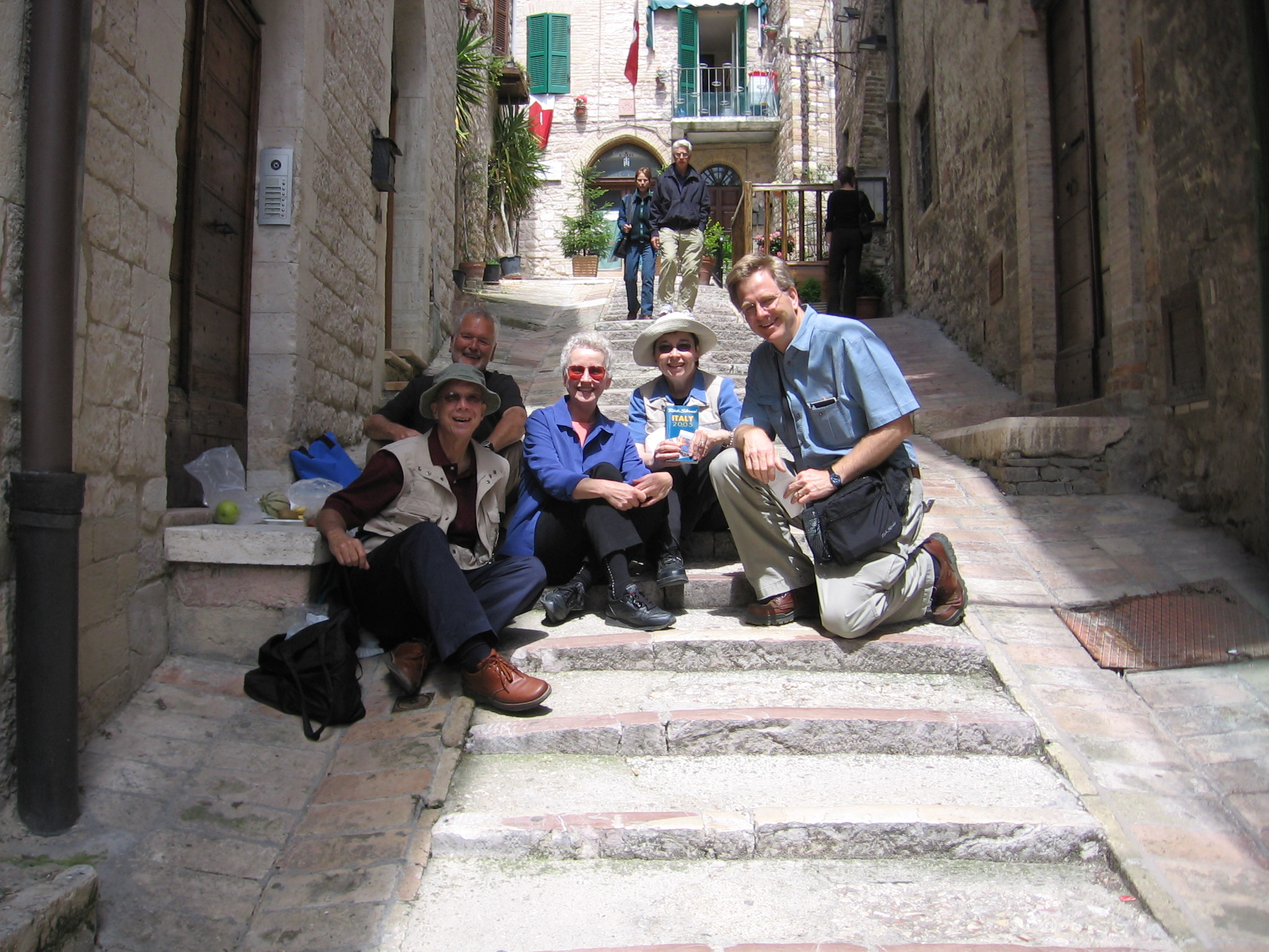 Group of American tourists encounter Rick Steves in the streets of Italy, all there due in part to his travel programs.